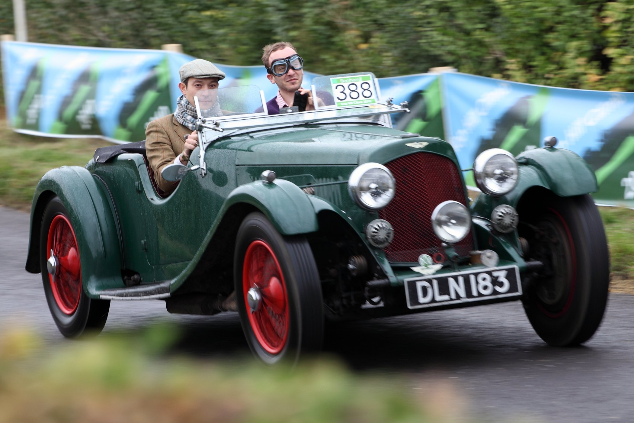 1937 Aston Martin 2 litre Speed Model(DVLA) first registered January 1937, 1939 cc